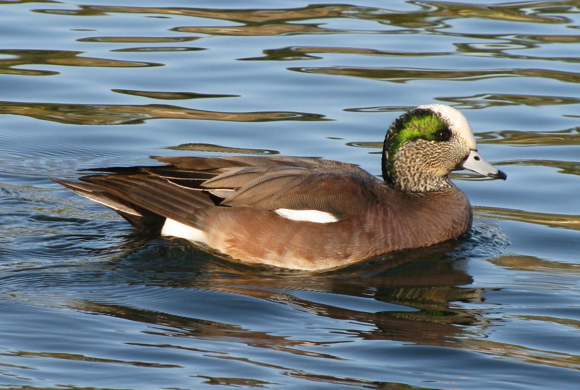 Anas americana, male - American wigeon Location: Ralph B. Clark Regional Park, Buena Park, CA, USA